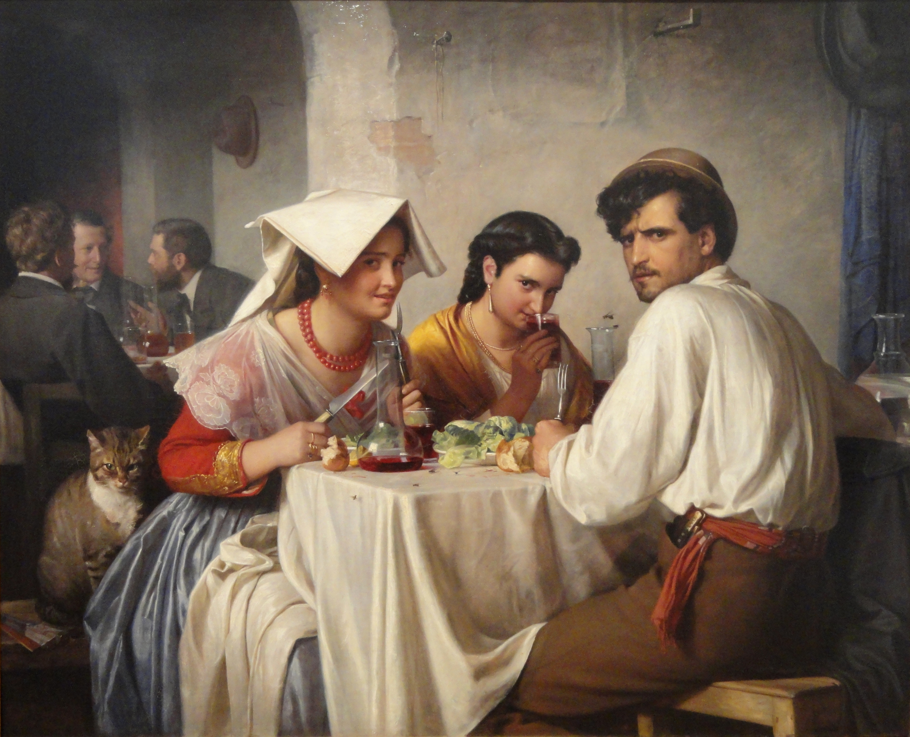 Exhibit in the Statens Museum for Kunst, Copenhagen, Denmark. Photography was permitted without restriction of all artworks old enough to be in the public domain. This artwork is in the public domain because its creator died more than 70 years ago.